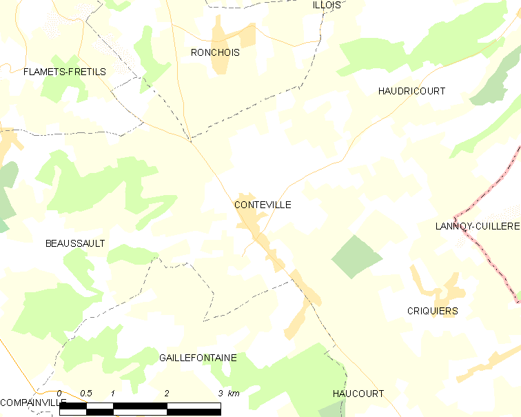 Map of French municipality Conteville